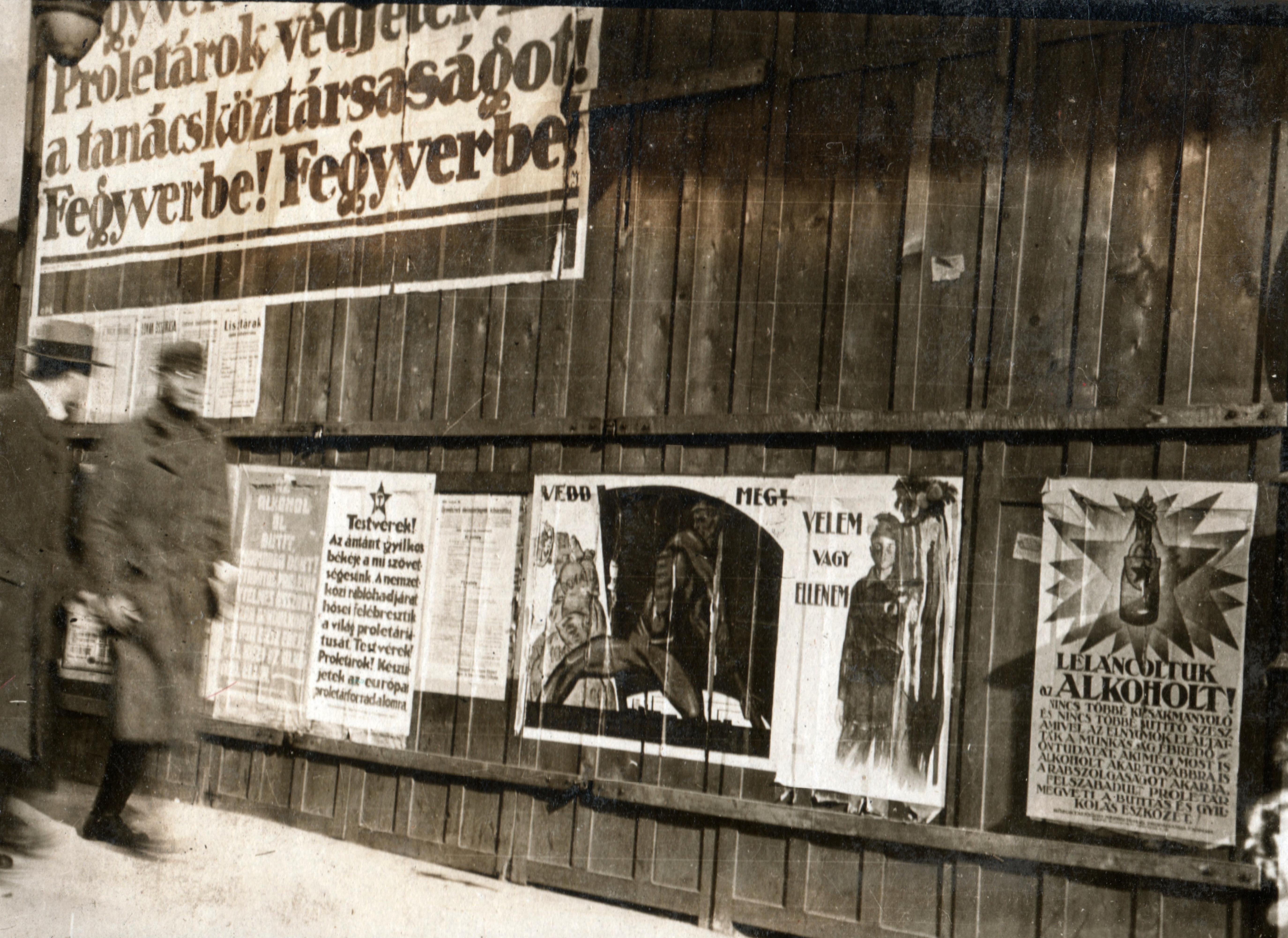 Location: Hungary, Budapest Tags: Hungarian Soviet Republic, poster, Ödön Dankó-graphics, Marcell Vértes-grafika, slogan